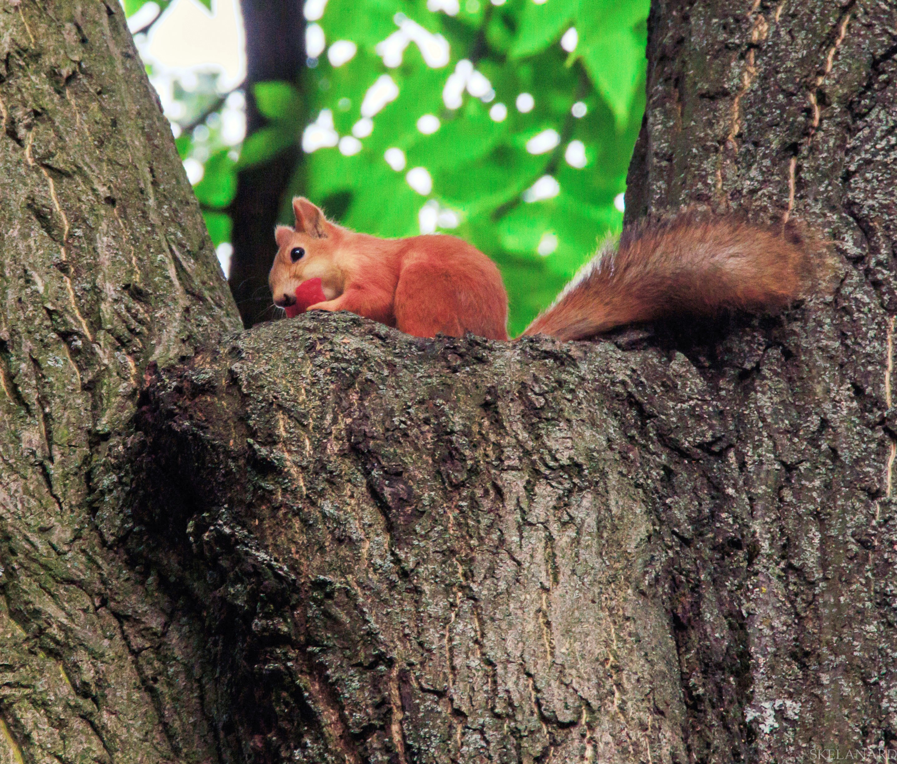 A squirrel in the city park of Gomel, Belarus